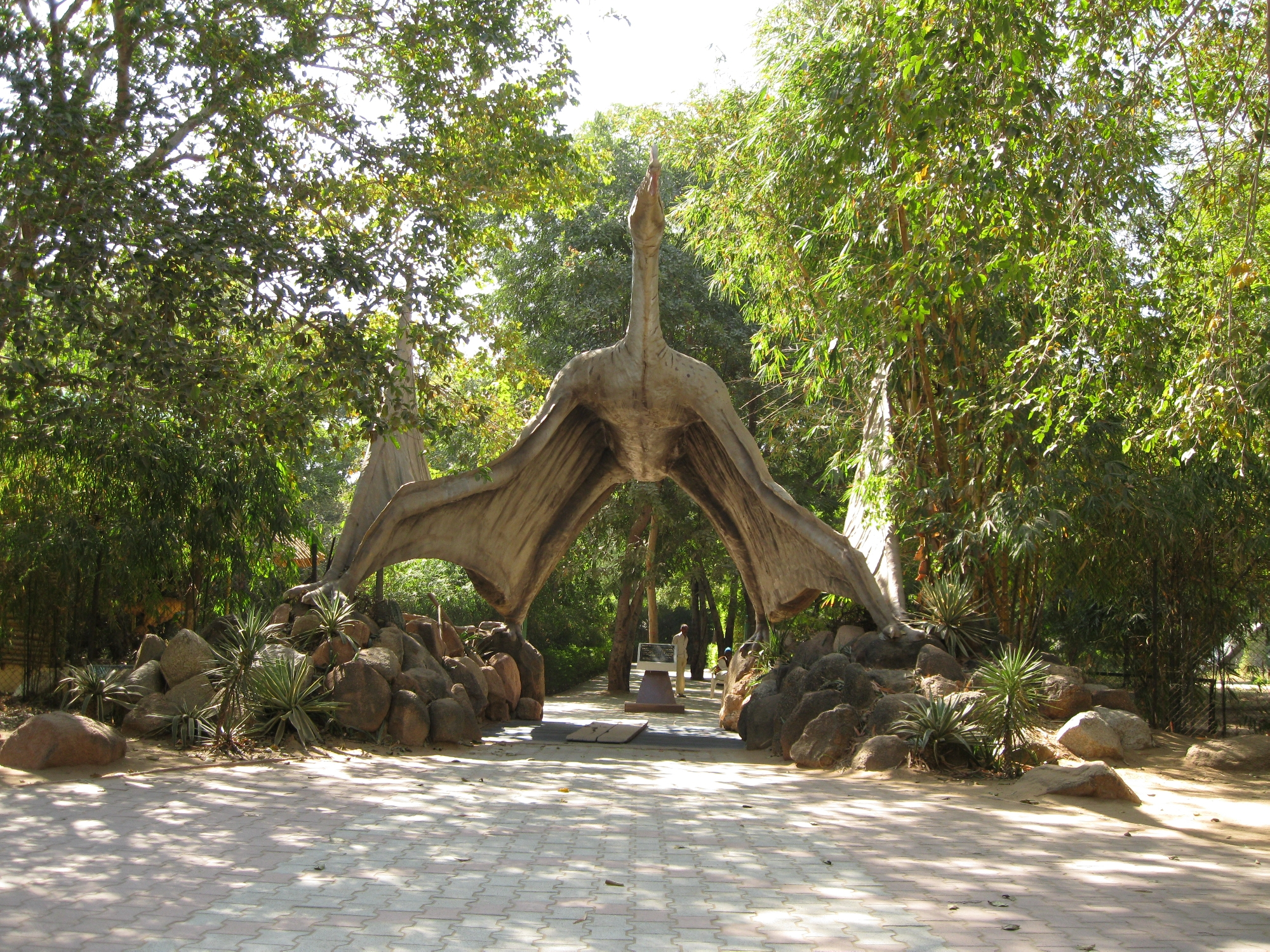 The Indroda Dinosaur and Fossil Park, or Indroda Nature Park, is located on the bank of Sabarmati river over an area of 400 hectares of land. It is considered as the second largest hatchery of dinosaur eggs in the world. The nature park is run by Gujarat Ecological Education and Research Foundation (GEER) and is the only dinosaur museum in India. The park nicknamed as 'India's Jurassic Park' consists of a zoo, botanical garden, amphitheatre and also has skeletons of many sea mammals which include that of the blue whale. It also has an interpretation centre and provides facilities for camping too.